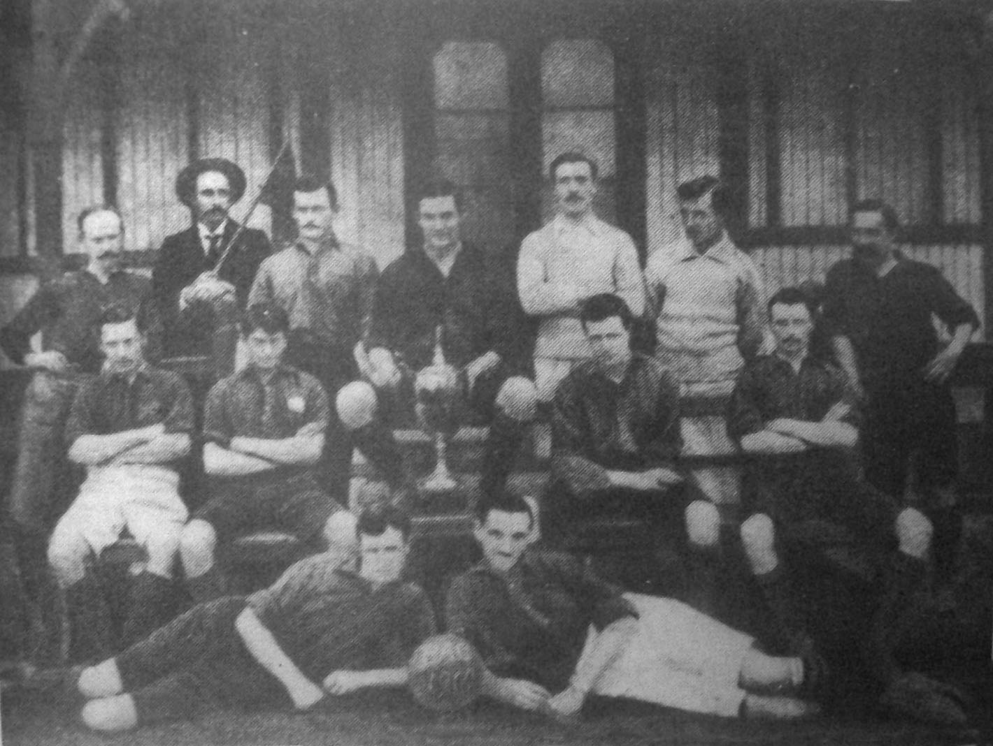 Belgrano Athletic Club football team in 1900. That squad won the Cup Tie Competition after defeating Rosario Athletic 2-0.